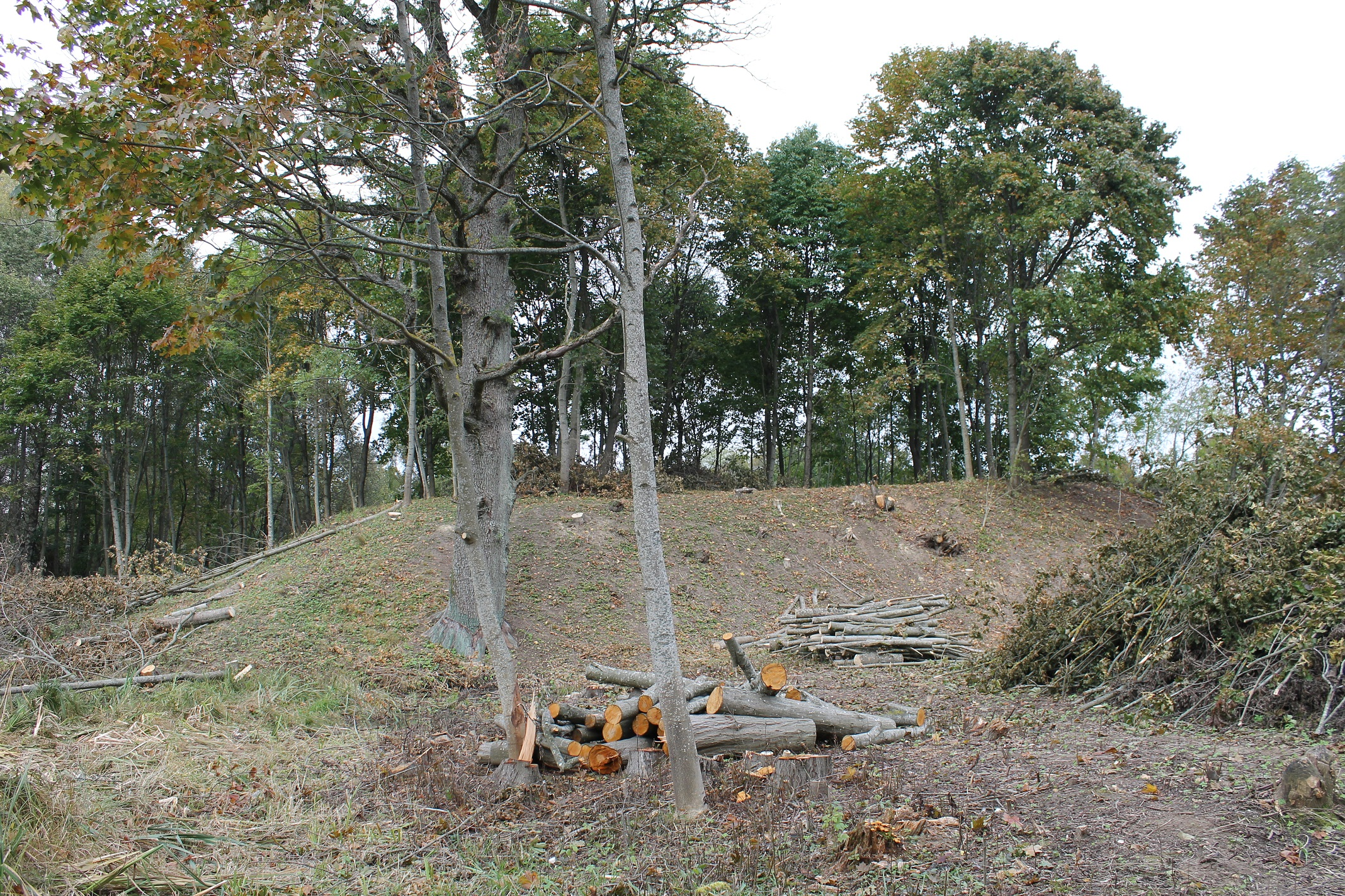 Plunge Hillfort, Plunge district, LithuaniaLietuvių: Plungės piliakalnis, Plungės rajonas, Lietuva